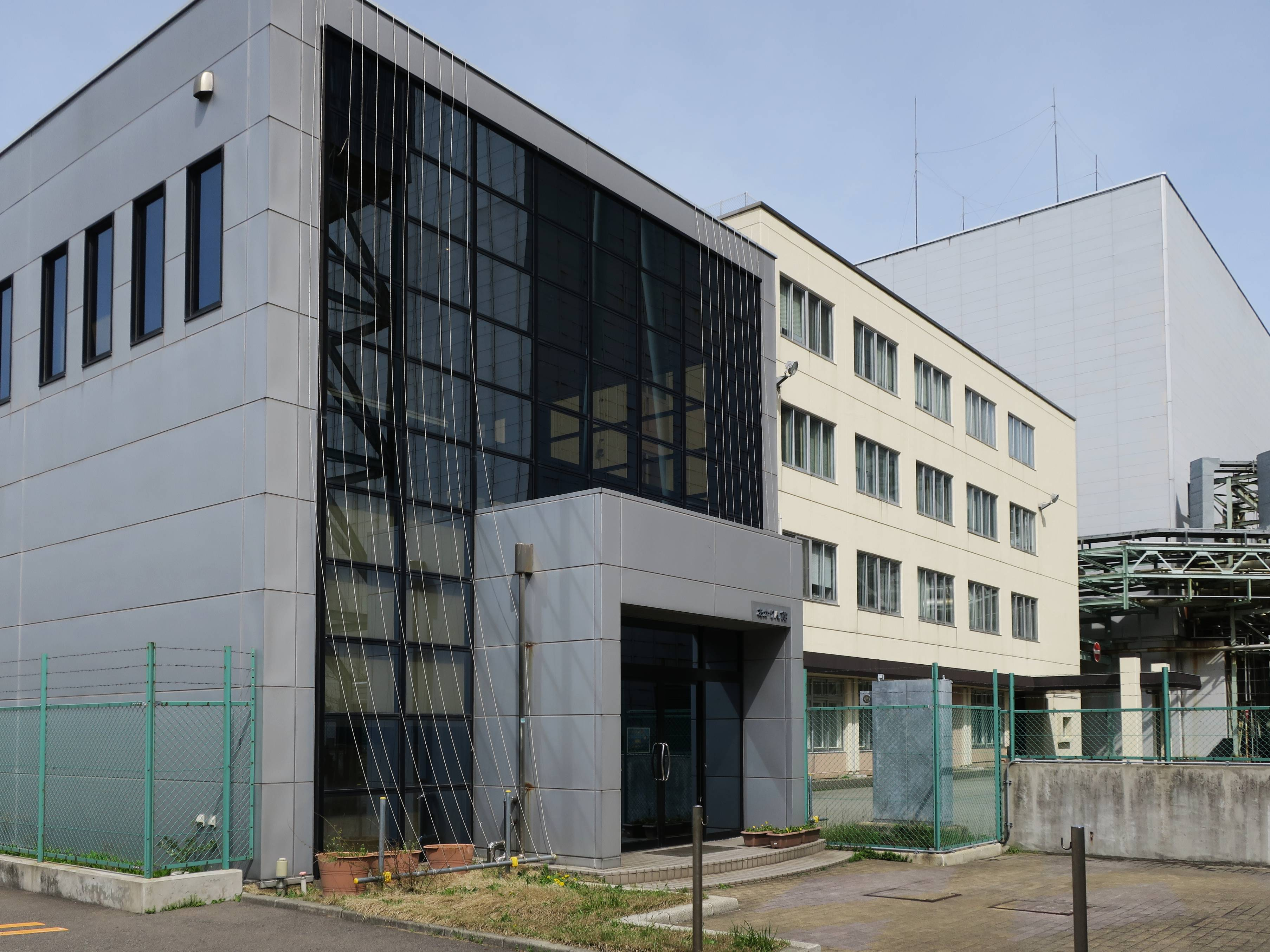 Sakata Kyodo Thermal Power Station.